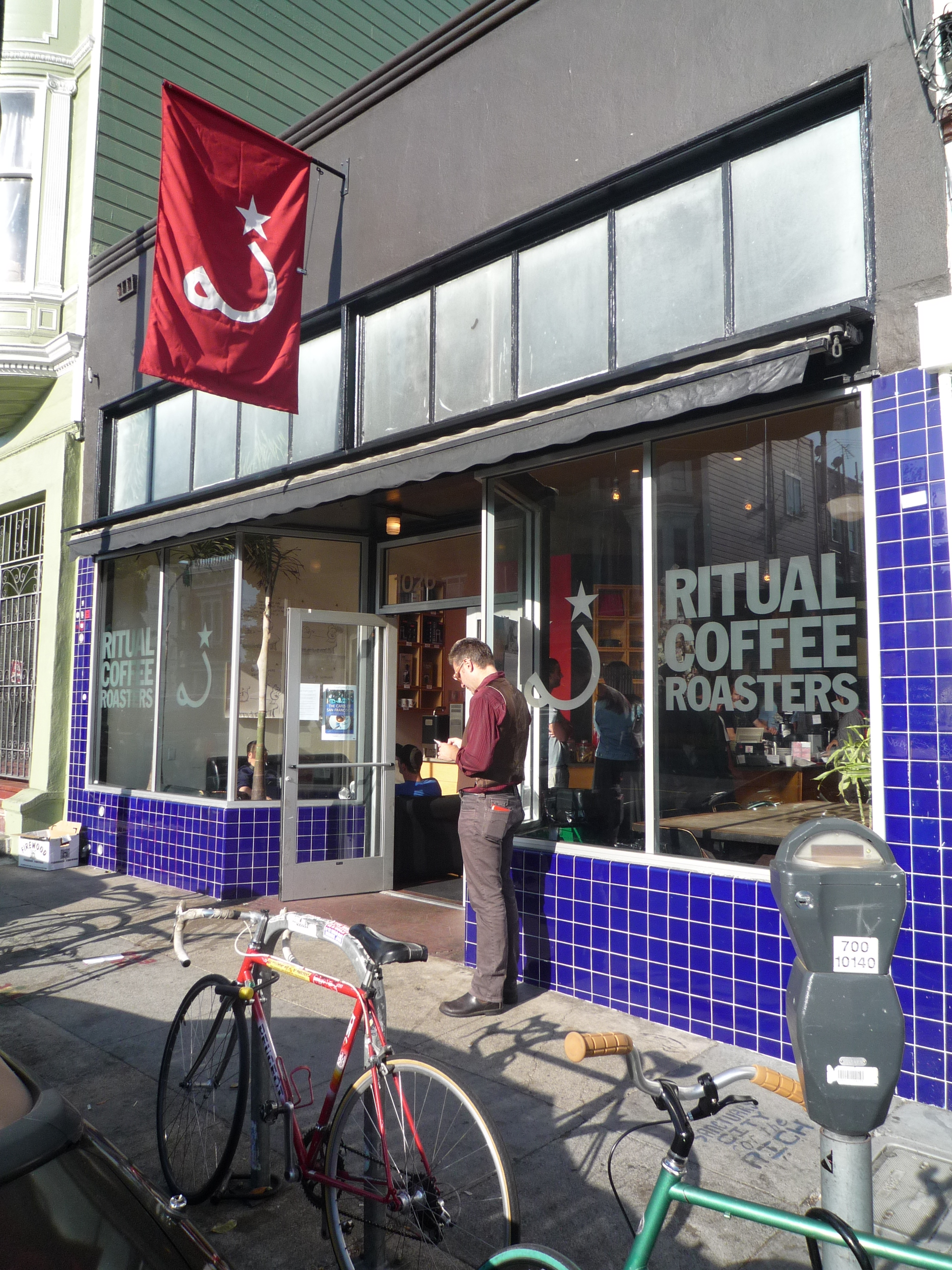 Ritual Coffee Roasters, Mission District